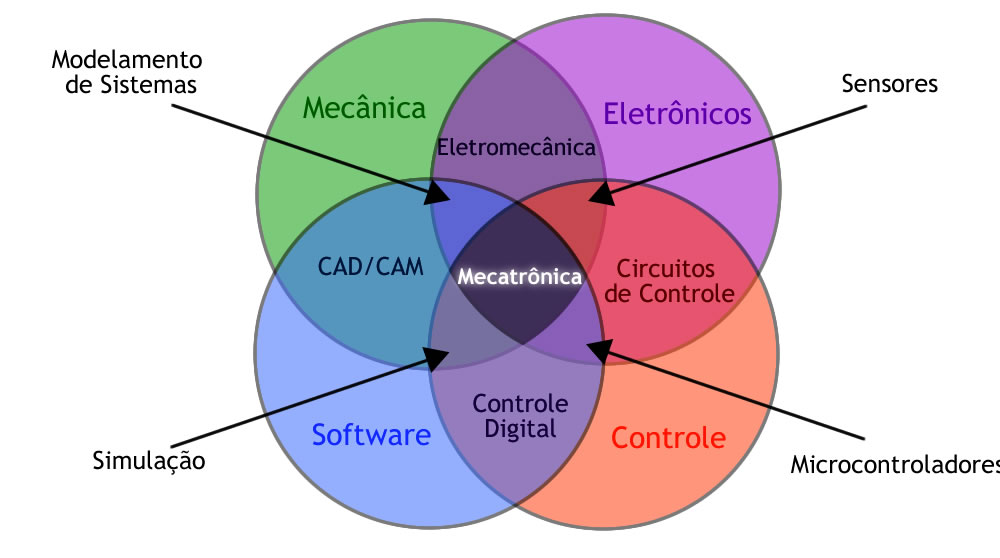 Original Image Translation to Portuguese. Image:MechatronicsDiagram.png